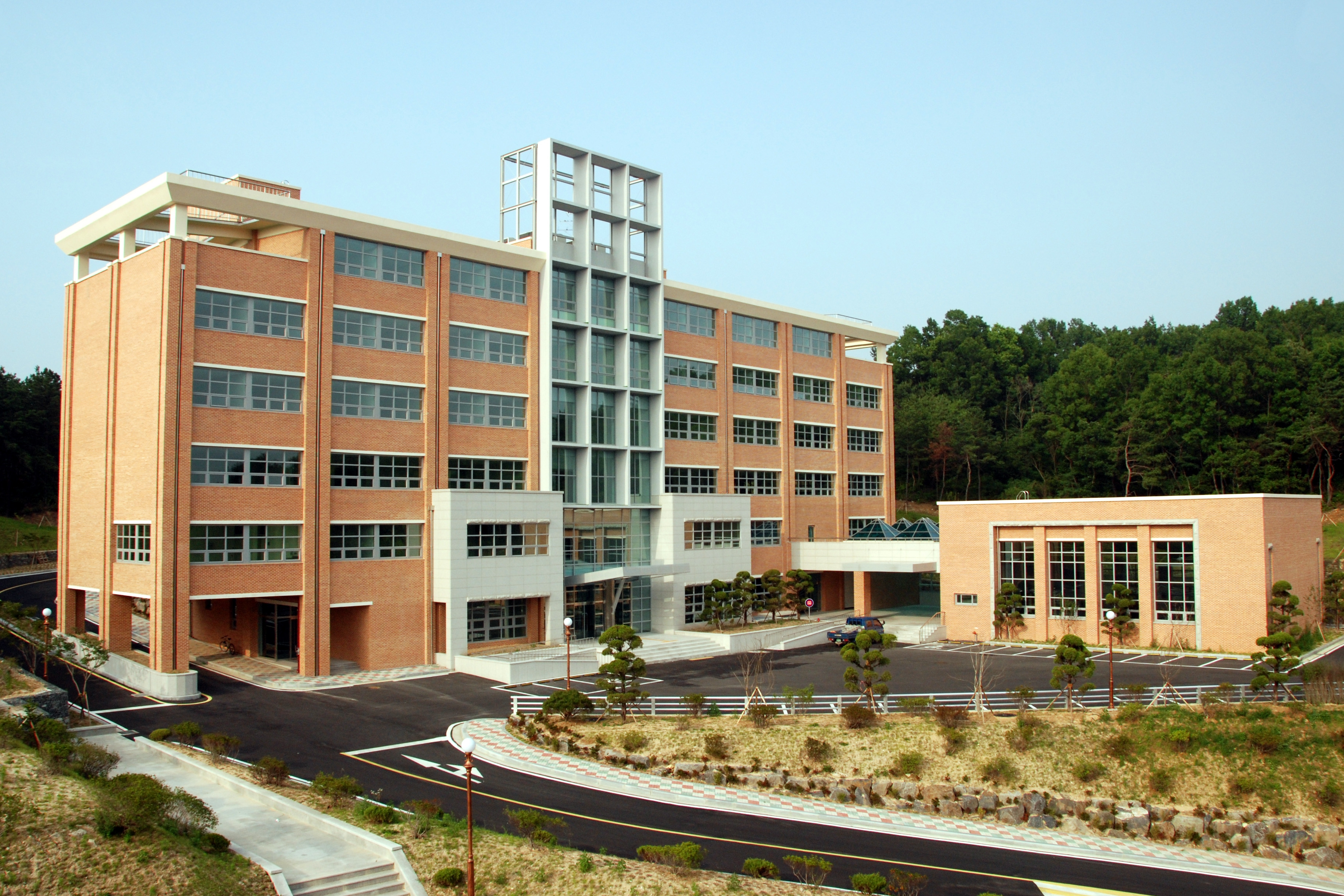 The Law Building (Building N12) of Chungnam National University seen from southwest.